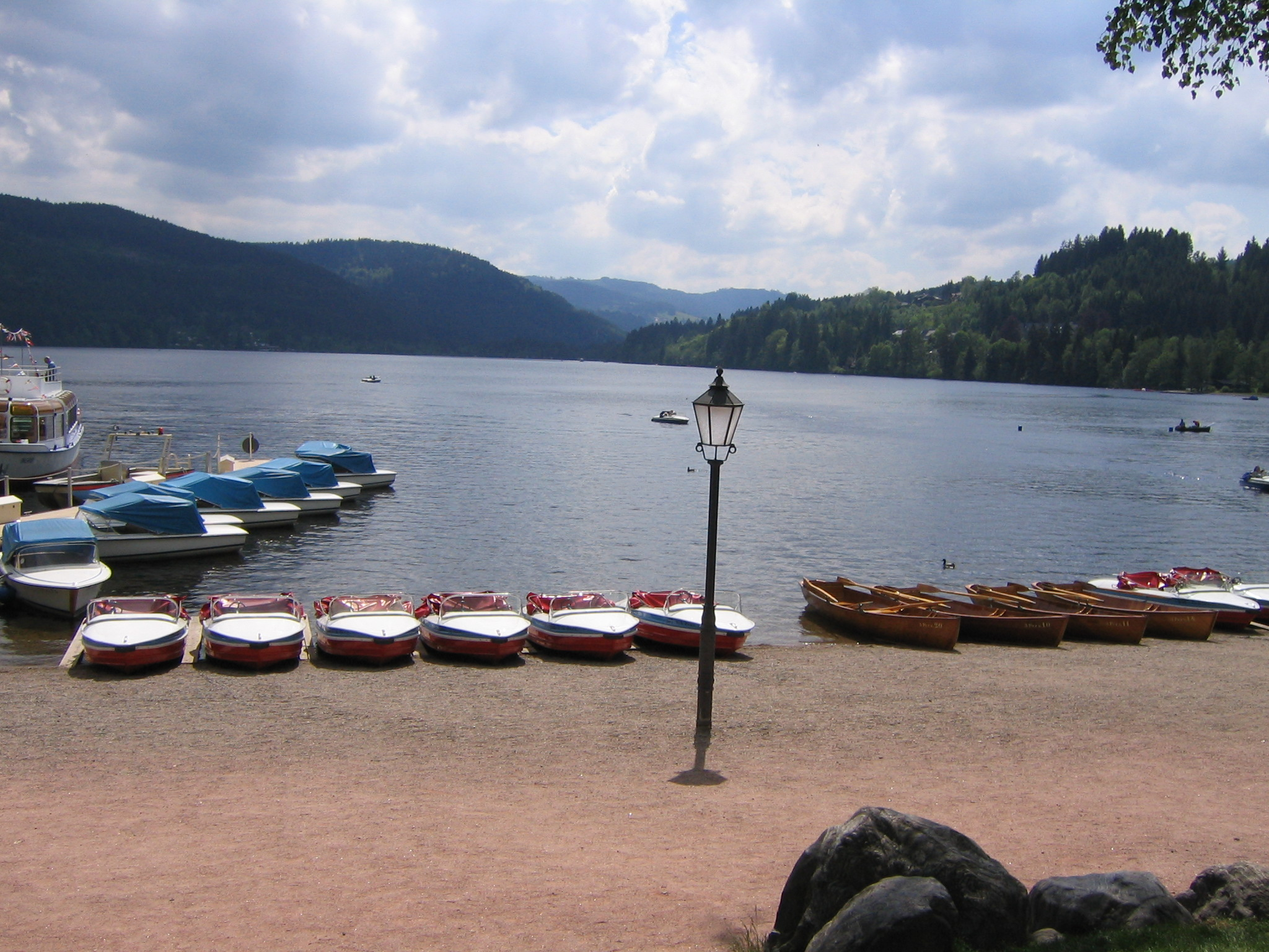 Titisee, Germany